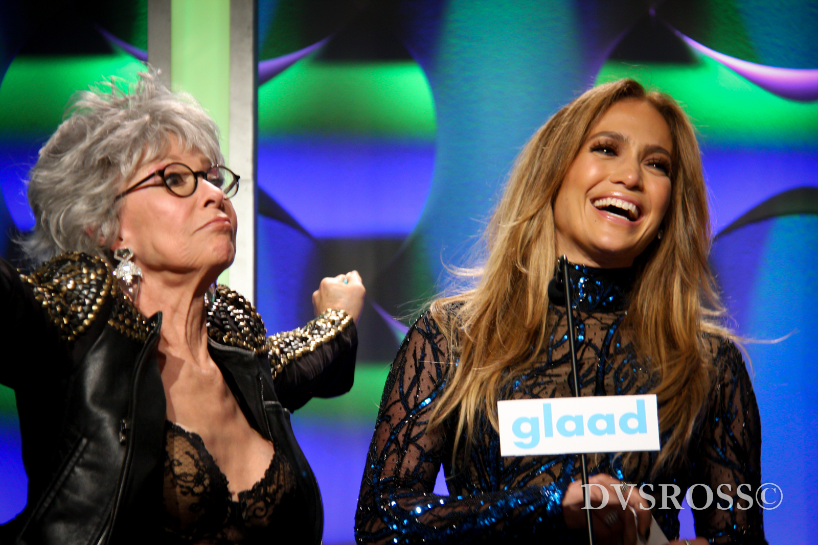 25th Annual GLAAD Media Awards #glaadawards